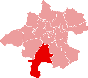 Location of Bezirk Gmunden within the Land of Upper Austria